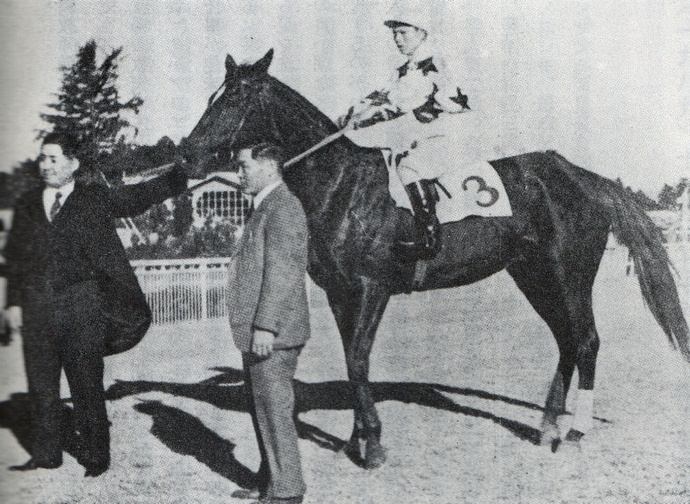 1937 teishitsu goshoten winner Happy might.